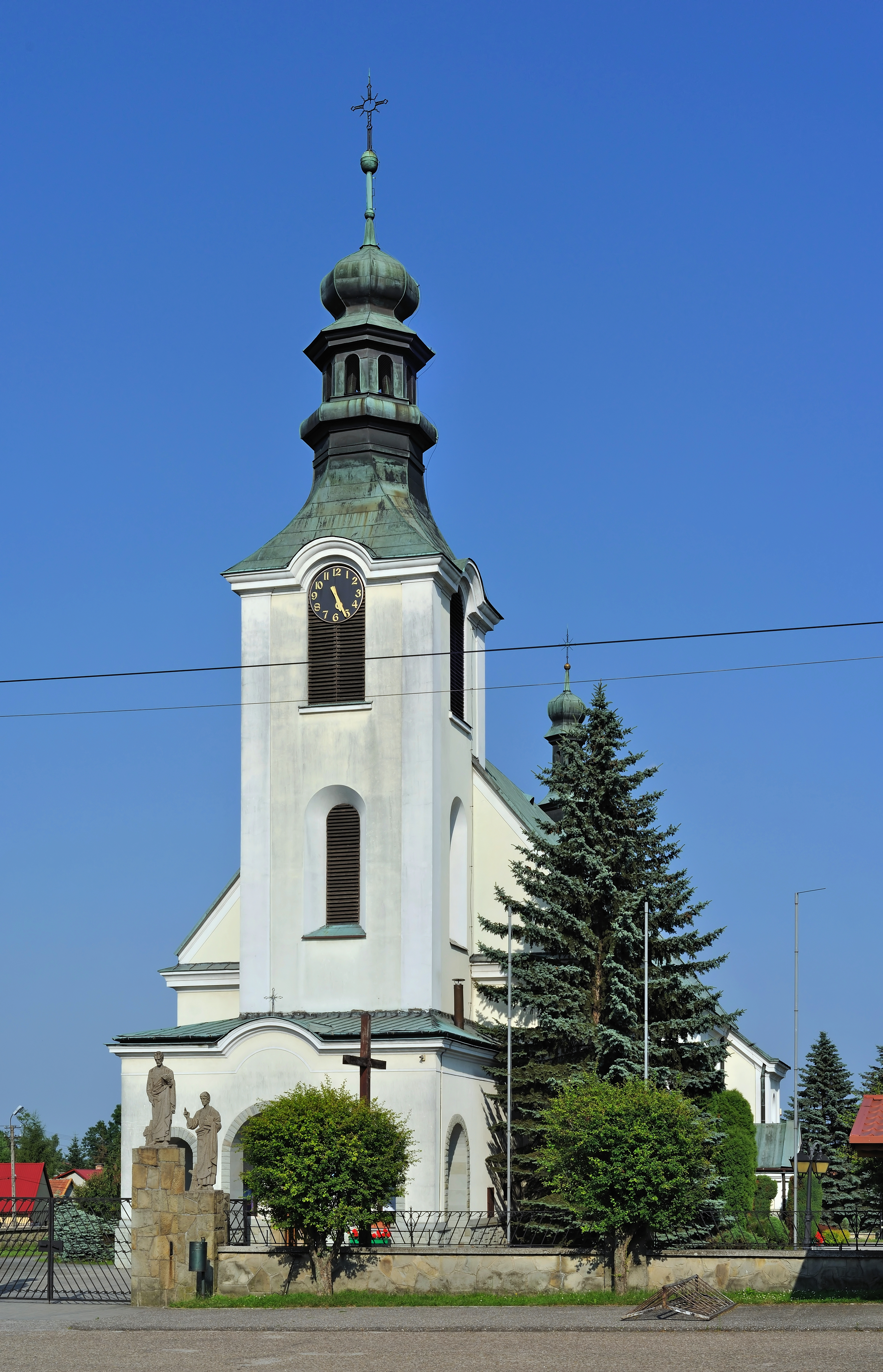 Saint Adalbert church in Lisia Góra